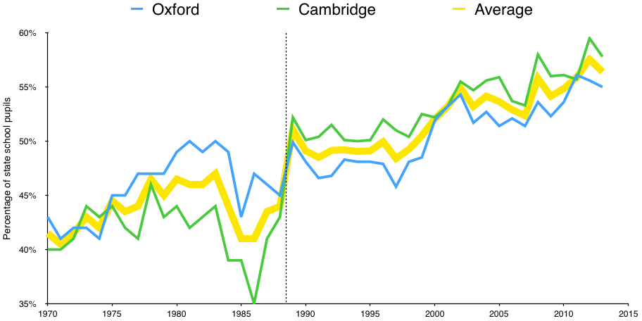 Percentage of state-school students at Oxford and Cambridge from 1970-2013.[1][2] Note there is a break in the series from 1988-89 where the methodology changes.